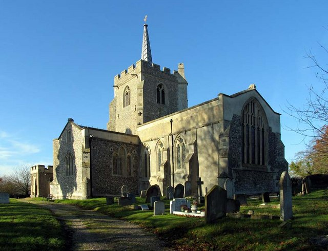 St George, Anstey, Hertfordshire